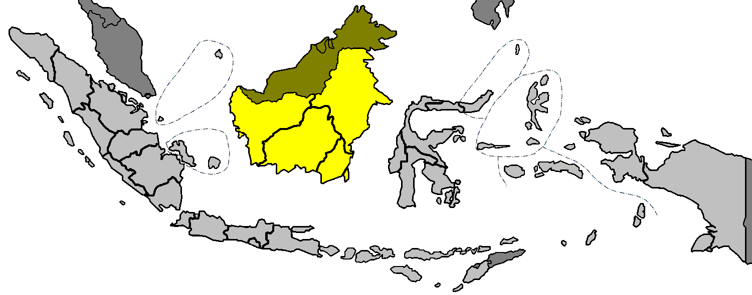 locator map of Indonesian islands